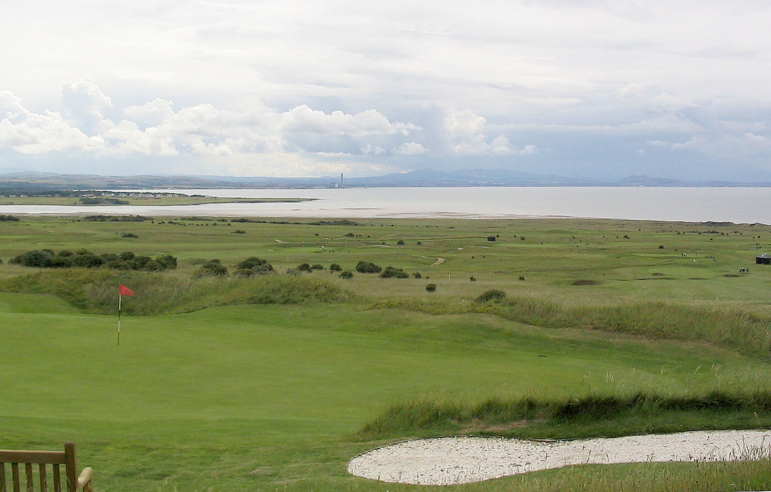 View from 7th tee of Gullane Number 1 Golf Course, over several holes of numbers 1, 2, and 3, Aberlady Bay and the Firth of Forth, to Arthur's Seat (Edinburgh) and the Pentland Hills. Photo taken by me, Martin Taylor, July 12, 2004.